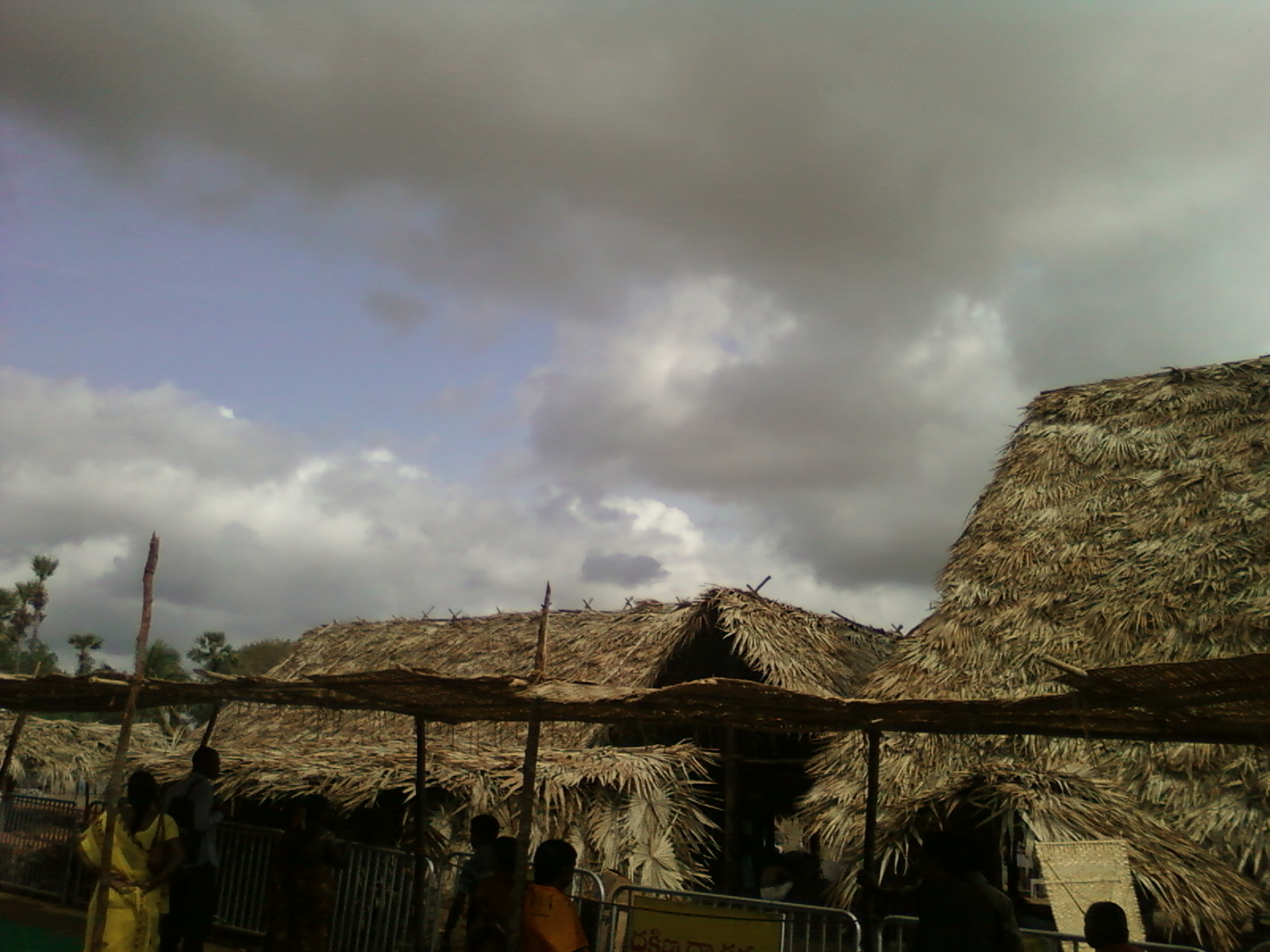 Atiraatra Maha Yaagam at Yetapaka, Khammam District, Andhra Pradesh